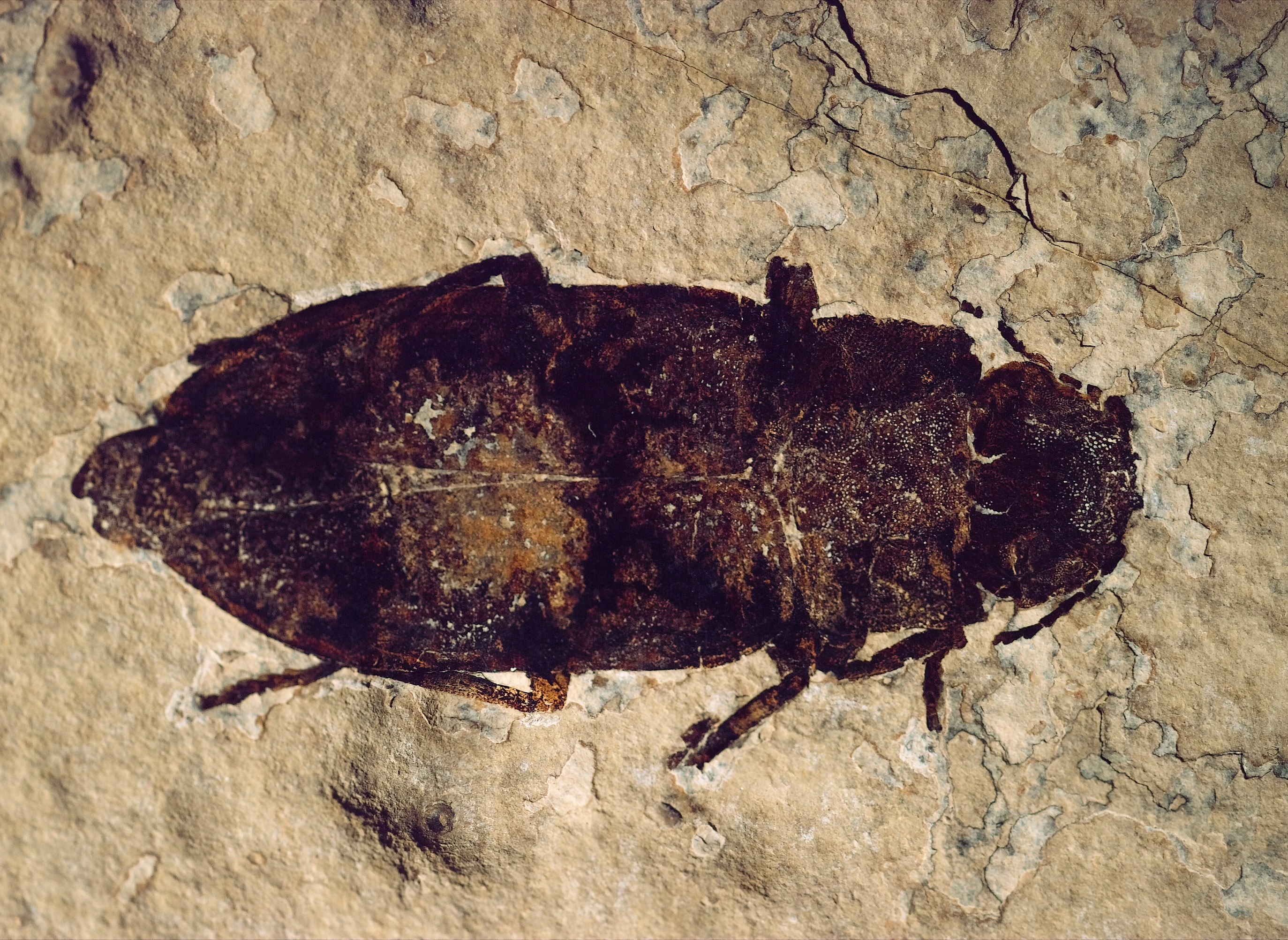 Fossil Buprestidae beetle, 3.5 cm long Because of their glossy irridescent colors, members of the family Buprestidae are known as jewel beetles or metallic wood-boring beetles, such as the emerald ash borer.